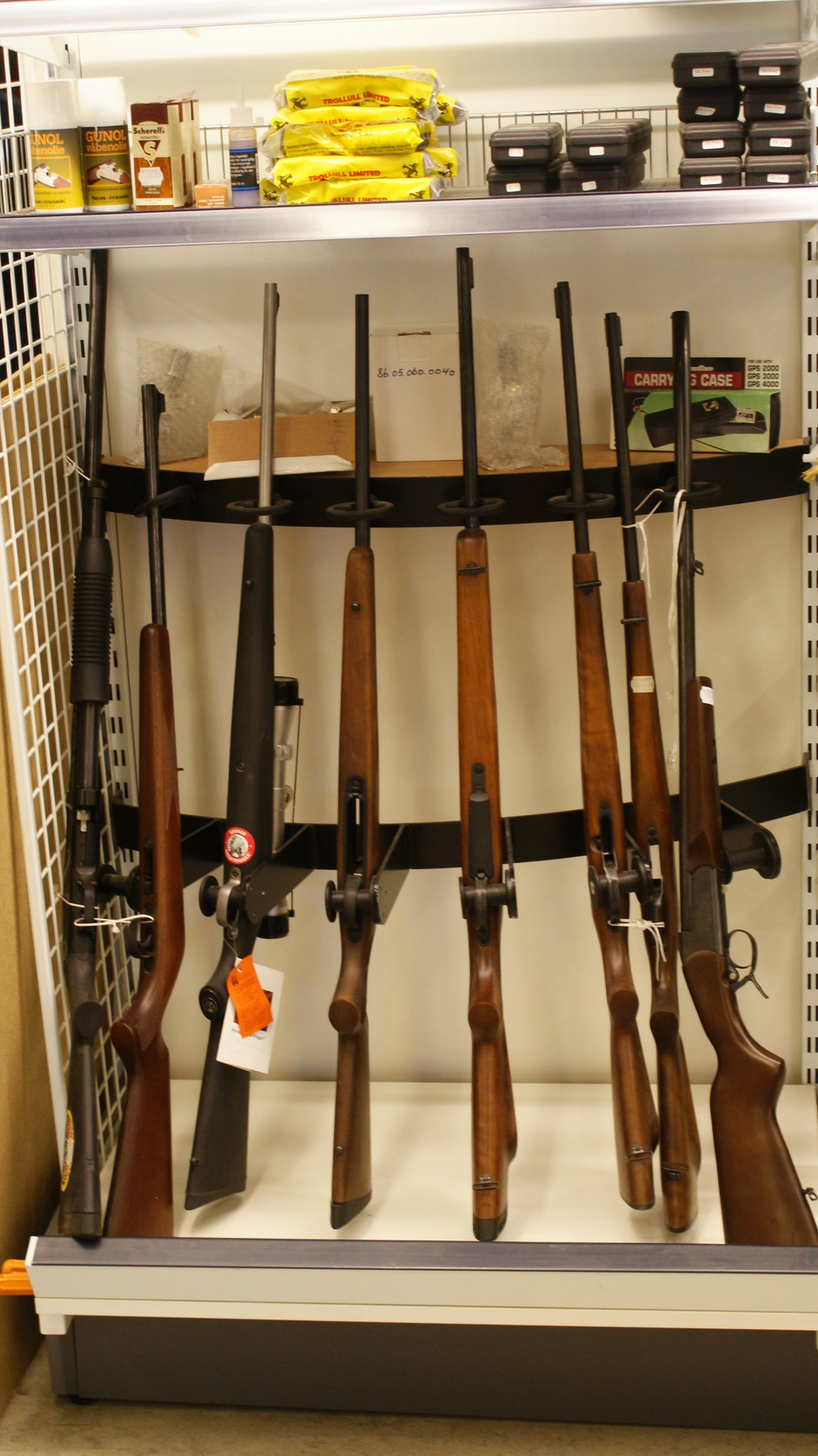 Ukkusissat, Greenland. Hunting guns on display at Pilersuisoq.